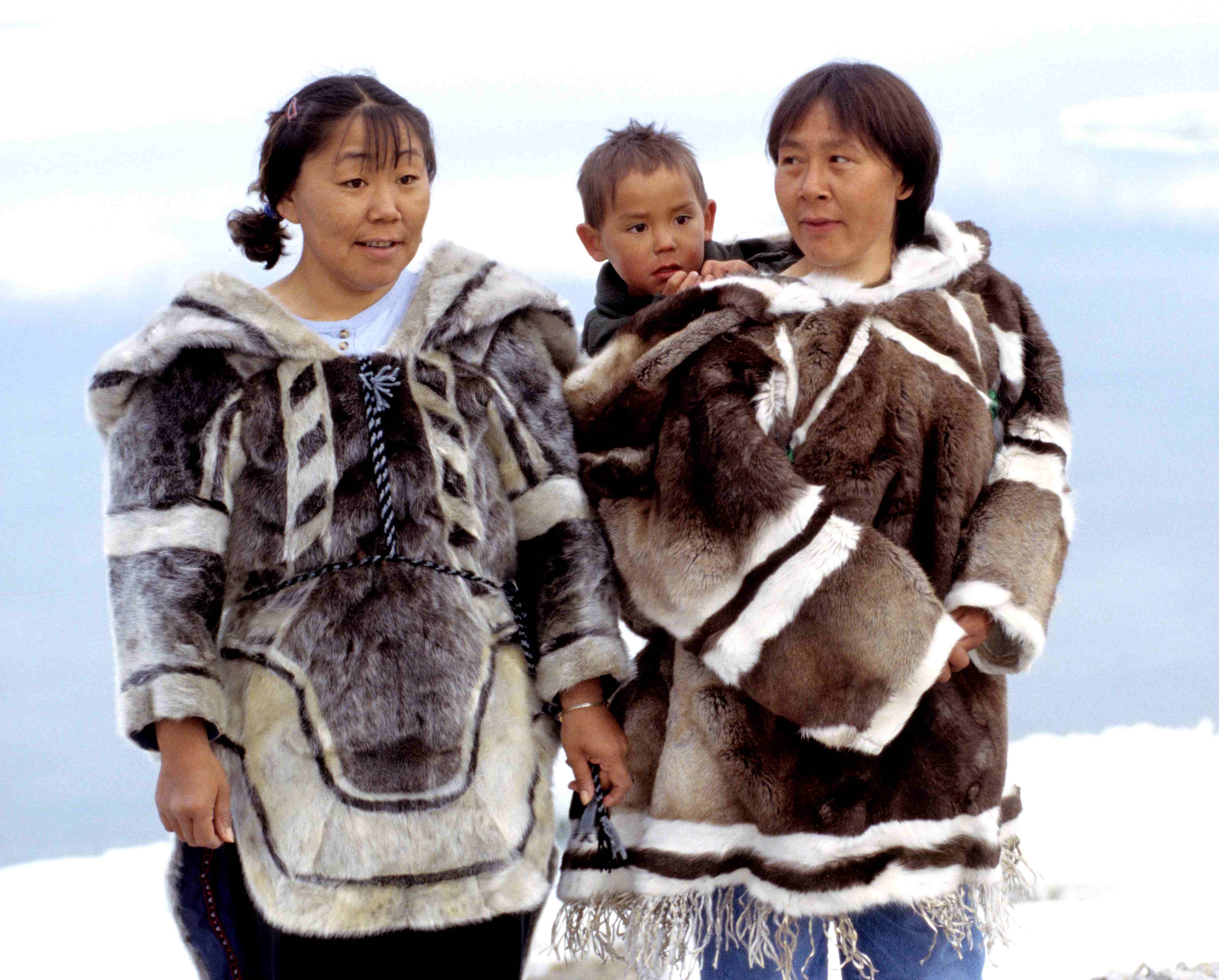 Traditional clothing; left: seal, right: caribou (Iglulik)